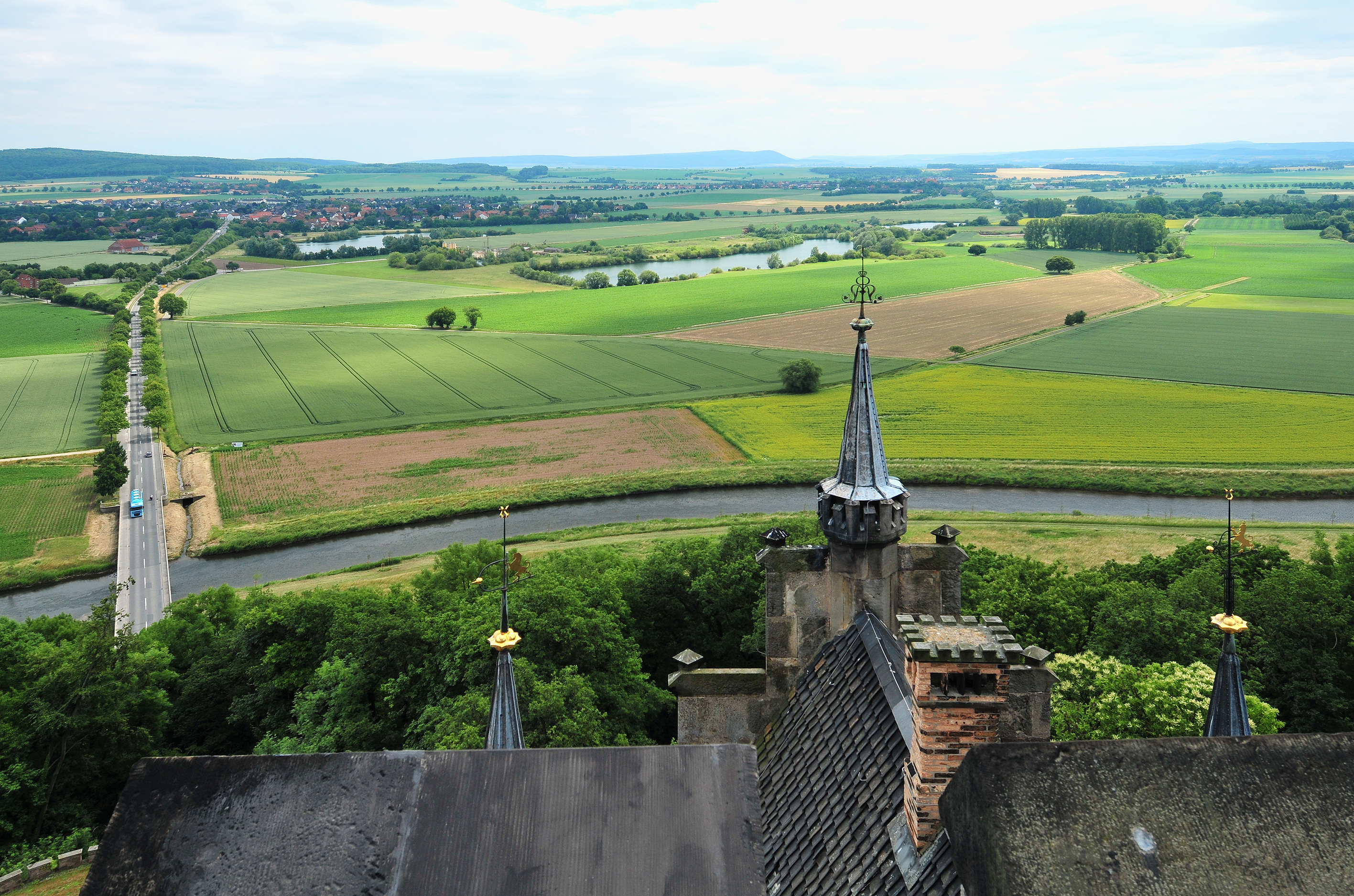 View by the Marienburg Castle over the river Leine onto Nordstemmen in Lower Saxony, Germany.